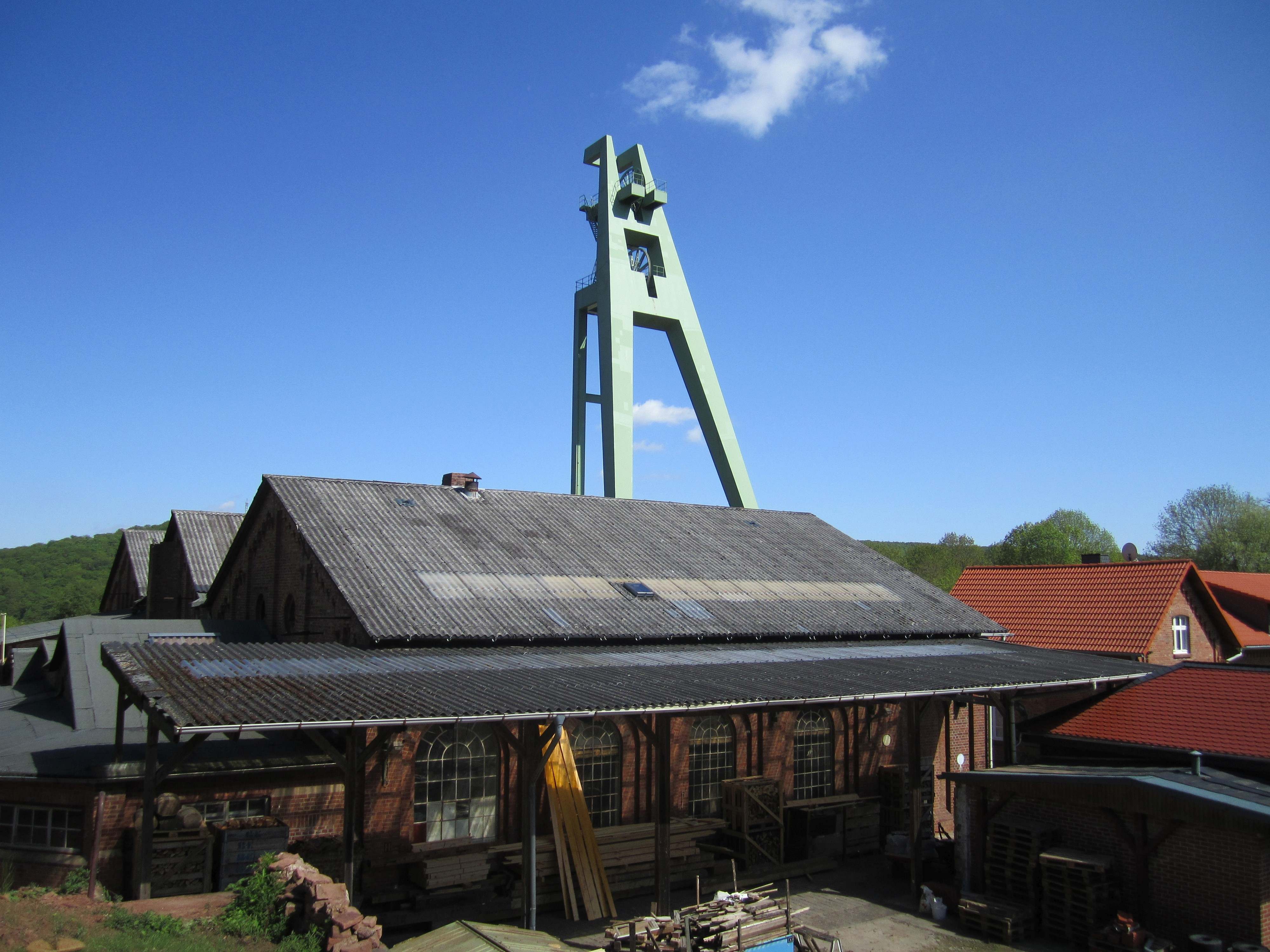 Headframe and buildings of no. 1 shaft. Salzdetfurth potash mine, Bad Salzdetfurth, Lower Saxony, Germany.